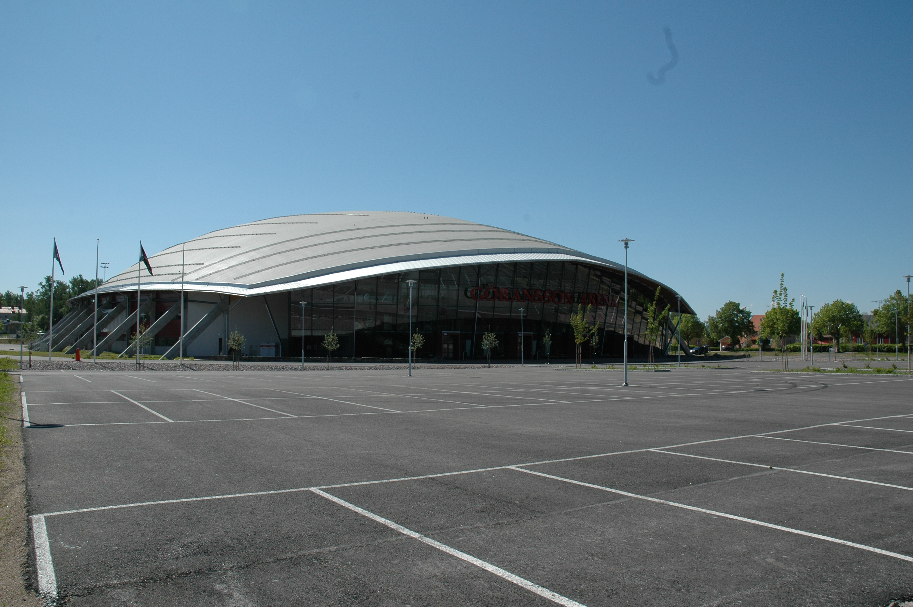 Pictures from the "Bergslagssafari" that Swedish Wikipedia performed between 4th and 6th of June 2010.